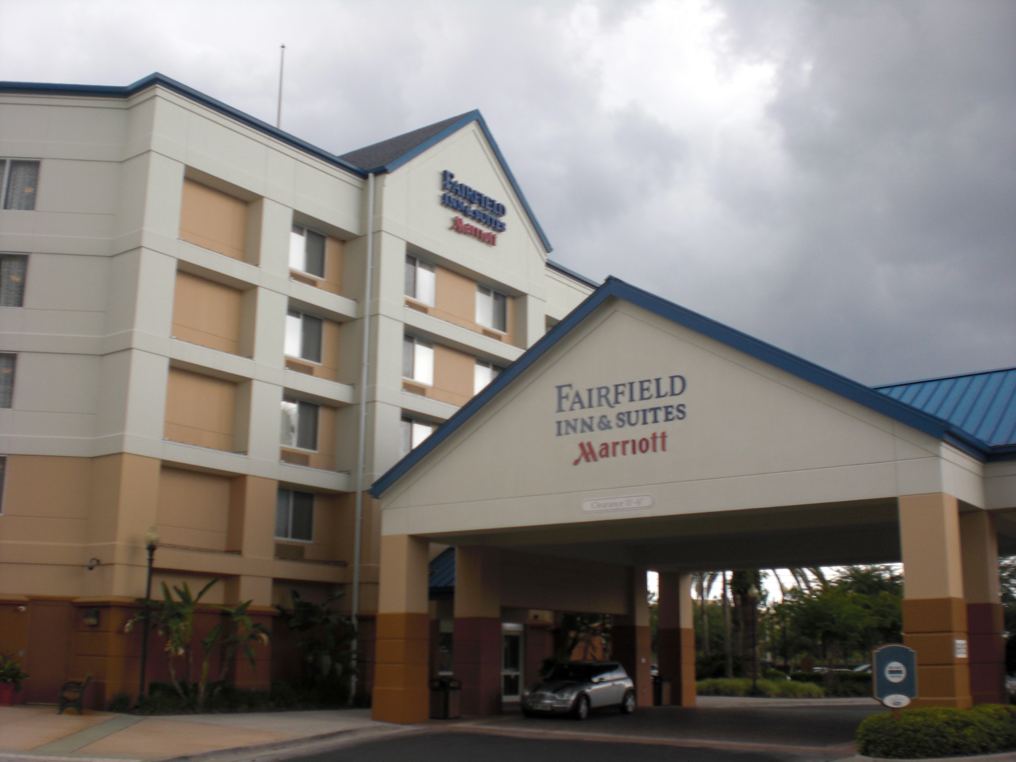 Fairfield Inn & Suites by Marriott, Lake Buena Vista, FL